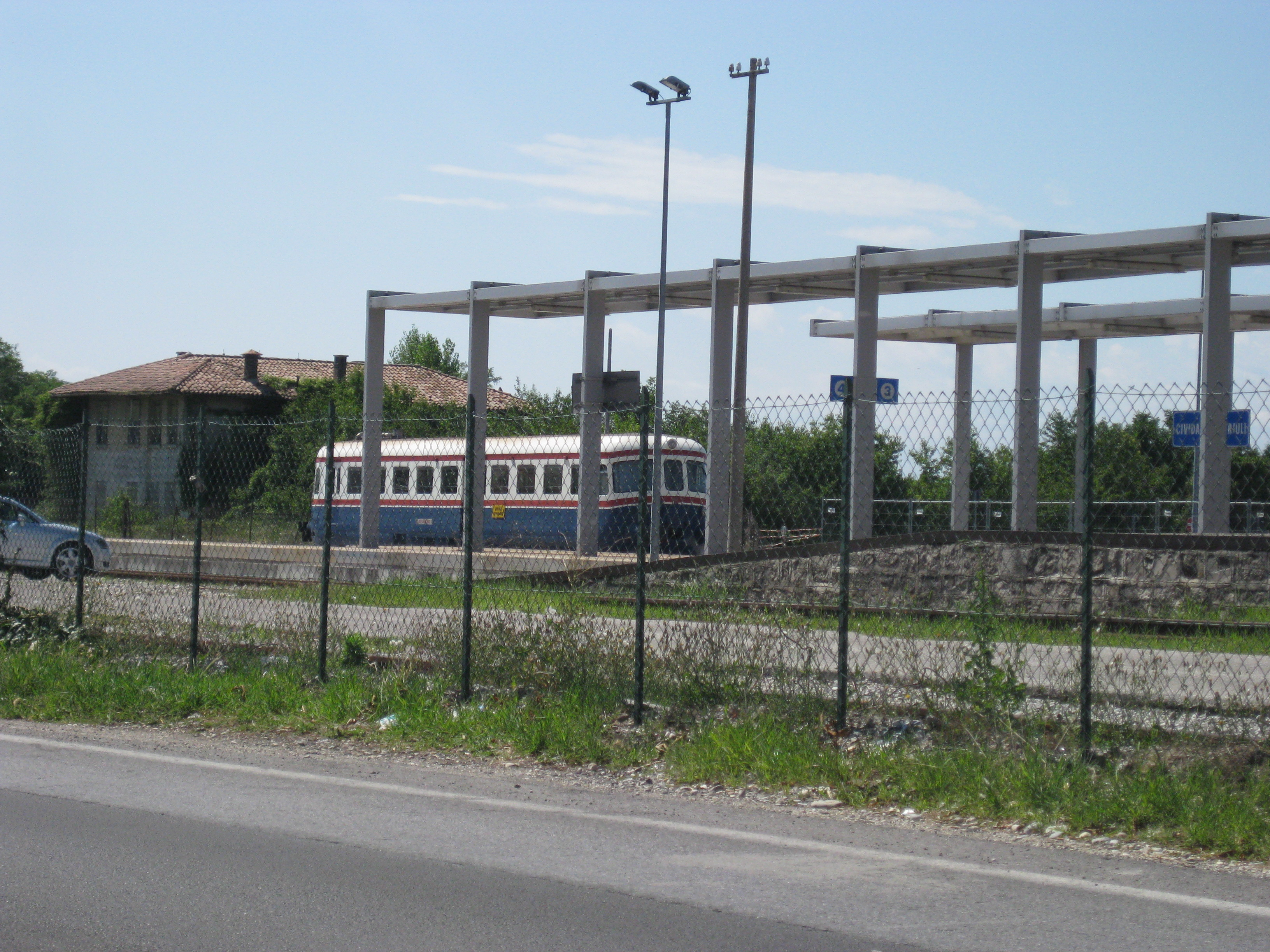 Old ADn 803 DMU in Cividale del Friuli's station's "modern" part